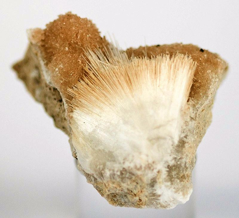 Ulexite, Calcite Locality: Boron, Kramer District, Kern County, California, USA (Locality at ) Size: 4.4 x 3.8 x 2.2 cm. The borate deposits of California have produced some really beautiful/unusual mineral specimens. Few are as unusual as ulexite, also called "TV rock" for its fiber-optic-like optical properties. This particular matrix specimen is features a radiating spray of discrete ulexite needles, something you almost never see in the mineral. The needles have superb lustre and a pearlescent, white to tan color. The ulexite needles are in association with some tan, translucent calcite crystals in rounded masses. Ex. Jim Minette Collection.